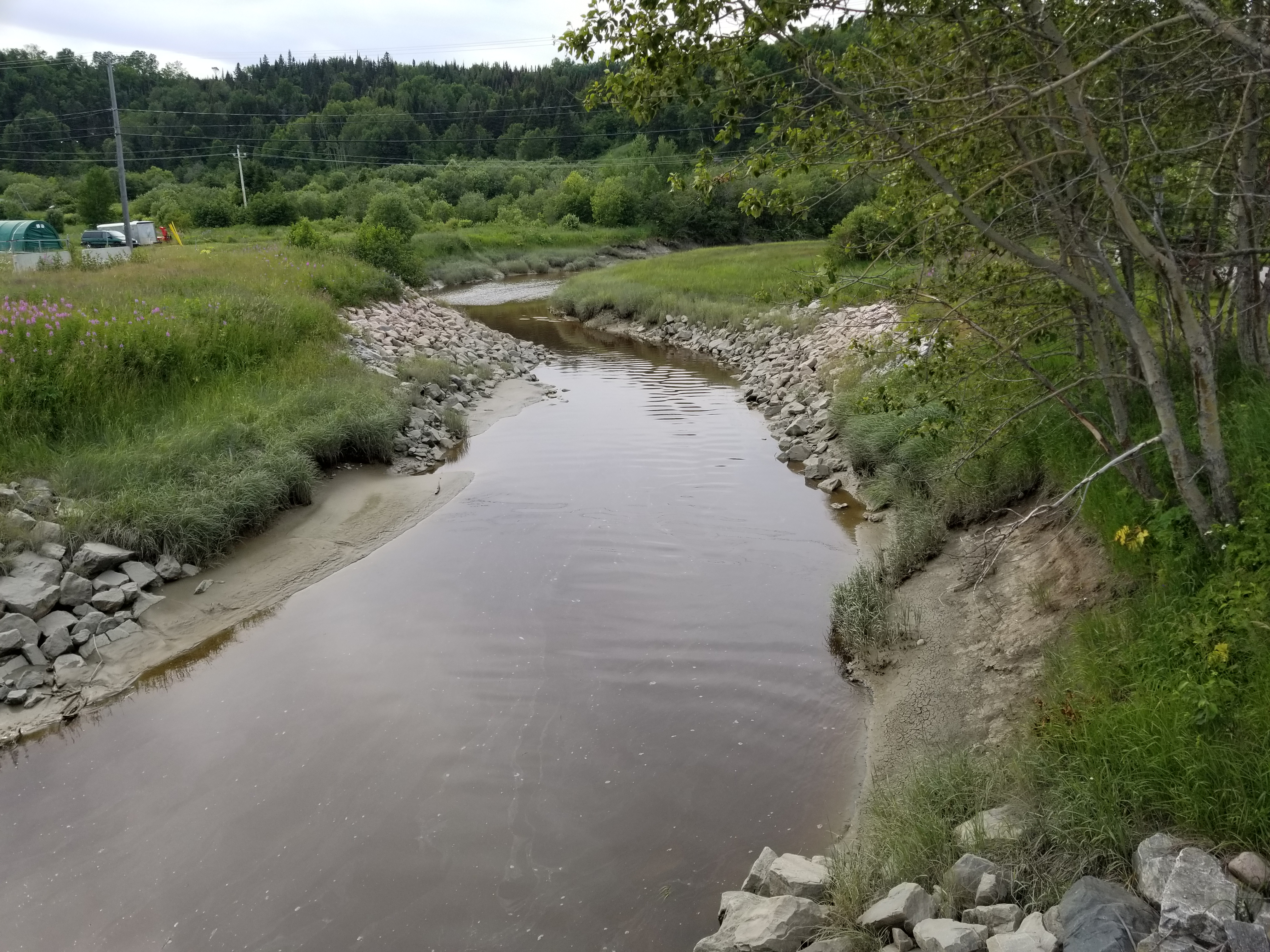 Éperlan River at Longue-Rive (QC), seen July 22, 2018 upstream from the Highway 138 bridge.